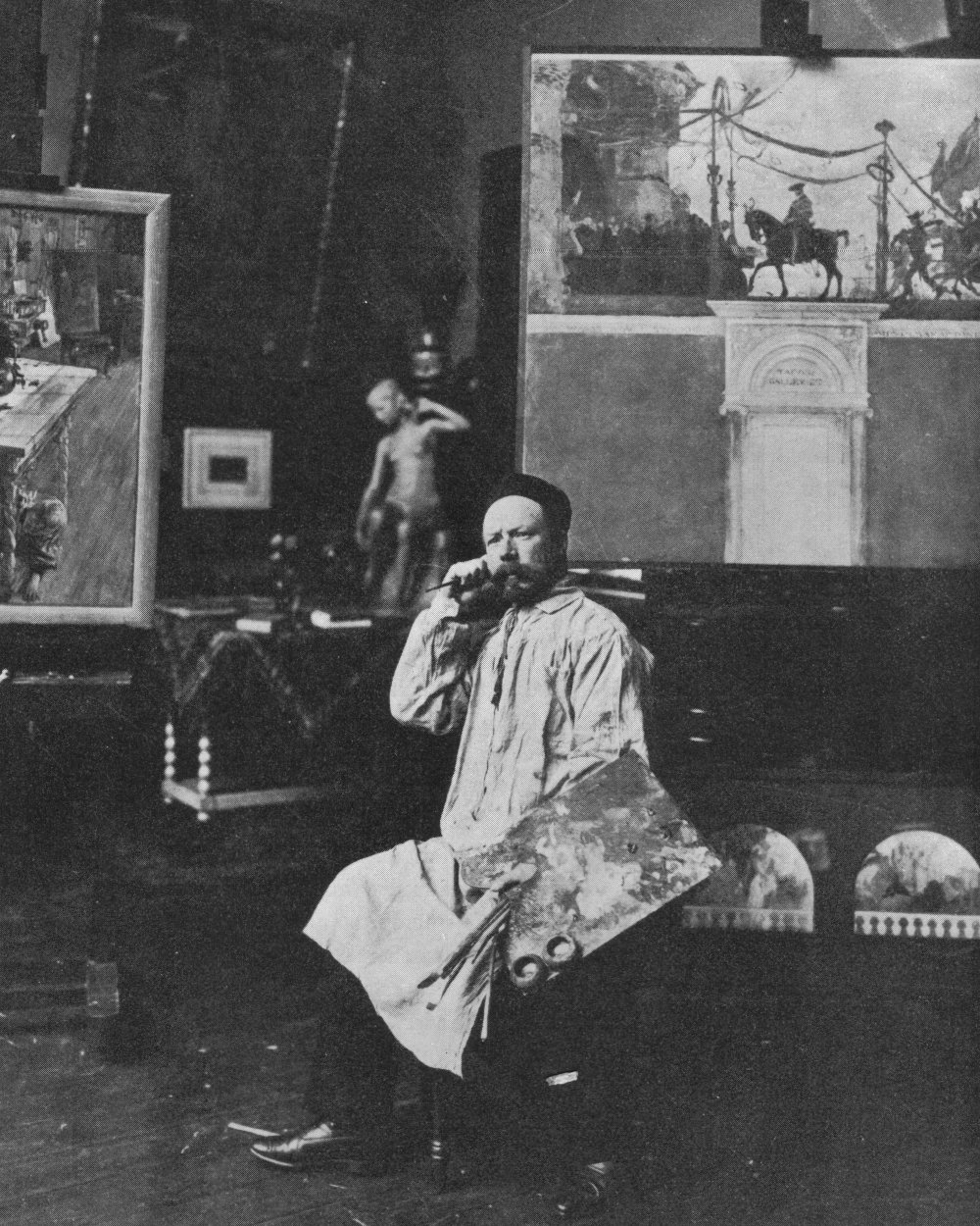 Carl Larsson in his studio. In the background is his first draft of The Entry of Gustav Vasa painted 1891? On the left hand side is seen part of 'Hide and Seek' painted 1900